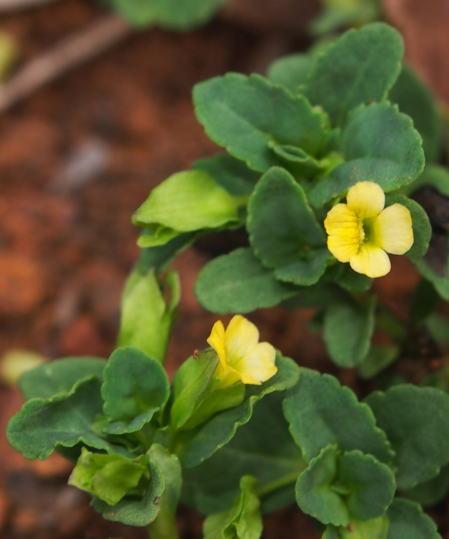 Bacopa procumbens flowers